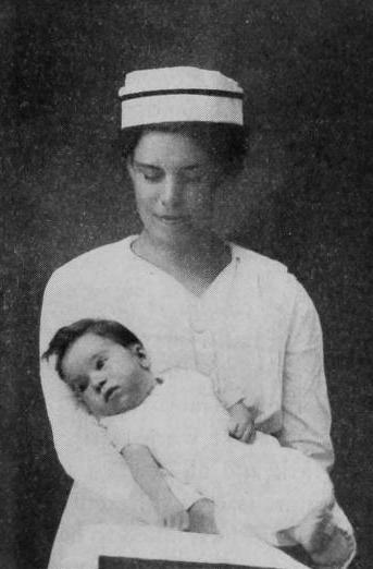 A woman with dark hair, wearing a nurse's cap and white uniform, looking down at and holding a baby with dark hair.